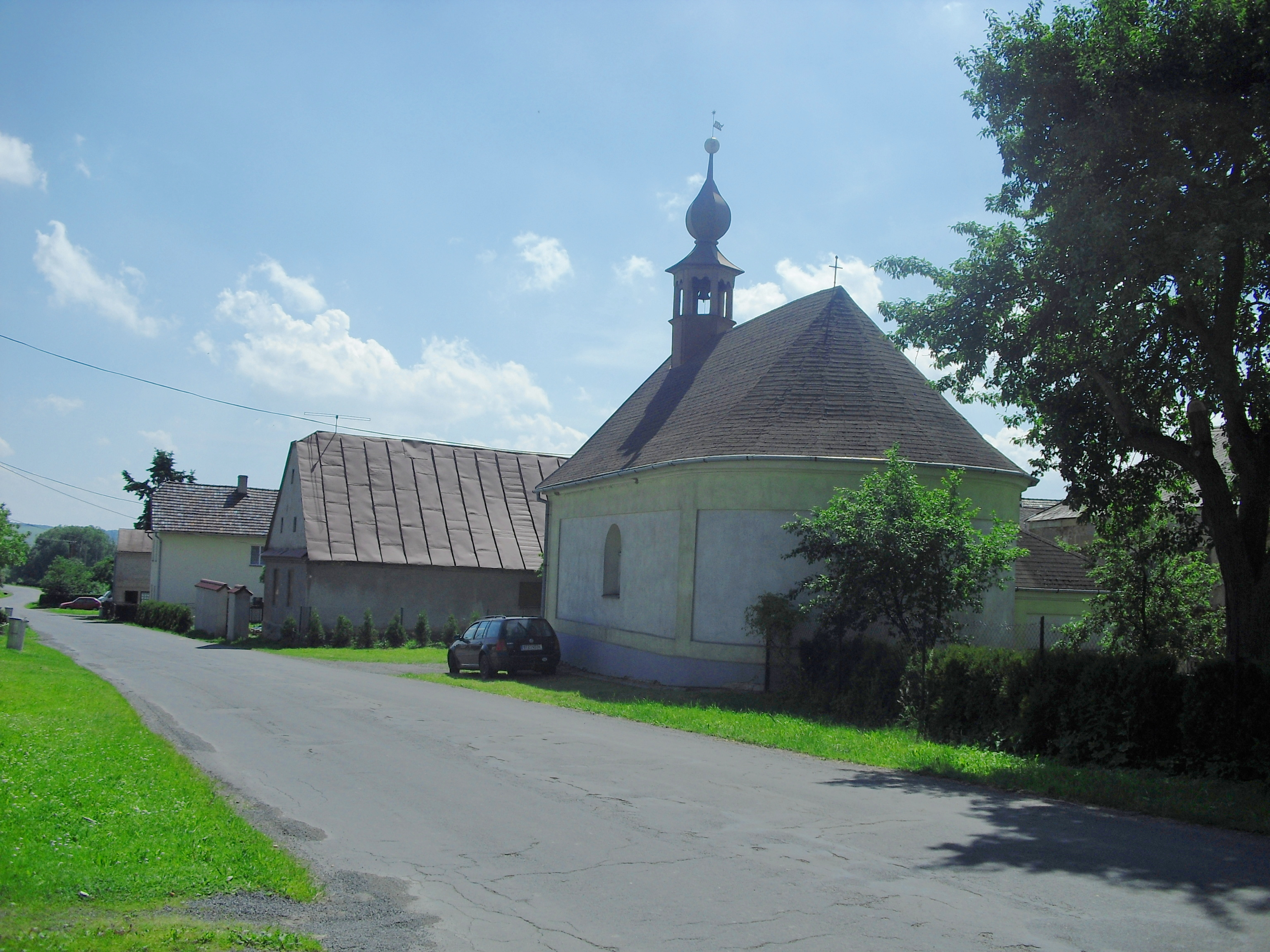 Fulnek, Nový Jičín District, Czech Republic, part Jestřabí. Chapel of Saint John of Nepomuk.